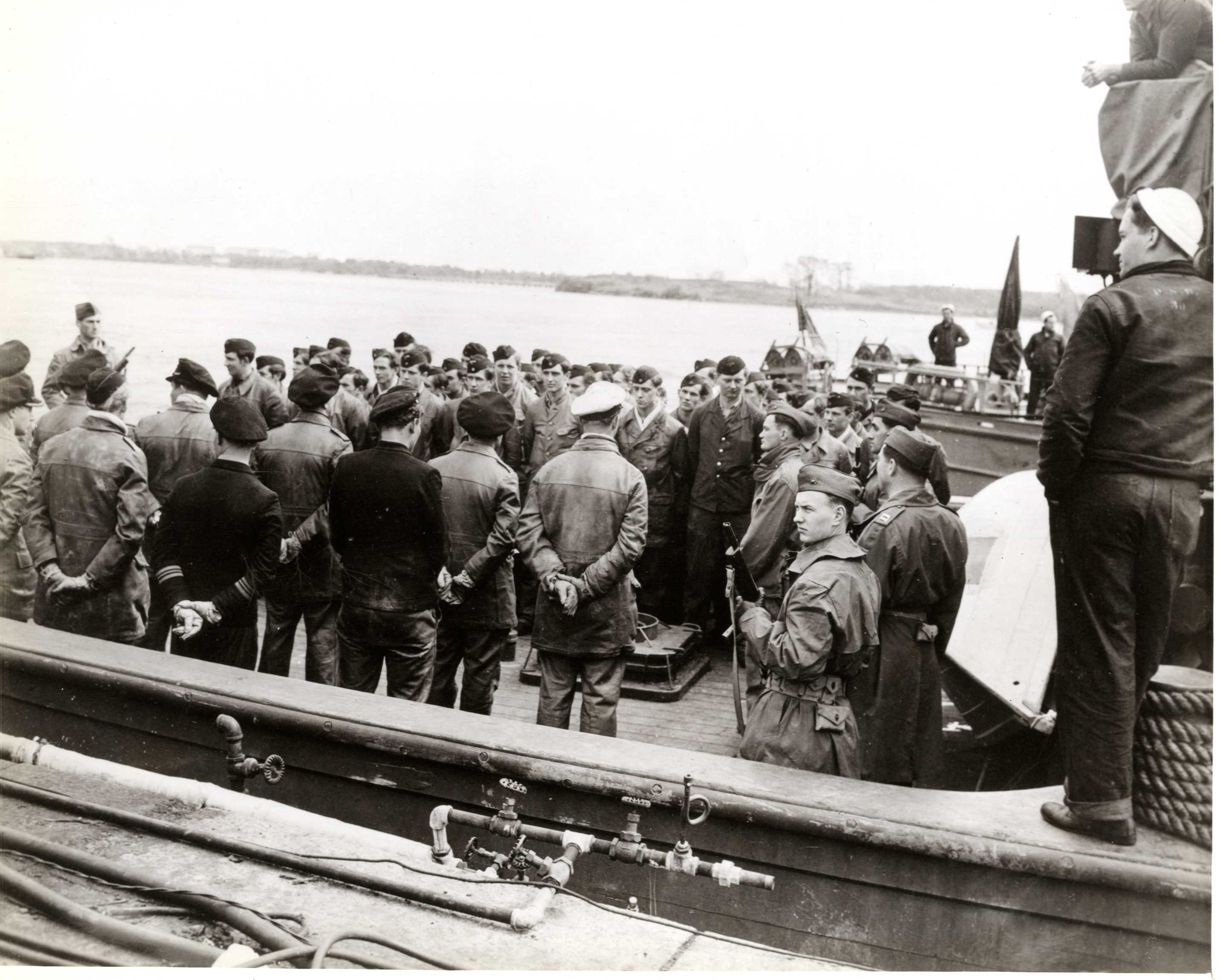 German Prisoners from U-873 at the Portsmouth Navy Yard in New Hampshire. This item consists of a photo showing German officers and their crew from the surrendered U-Boat 873 at the Portsmouth Navy Yard in New Hampshire. German officers, with their backs to the camera and crew, stand on the deck of the tug which brought in their surrendered sub U-873 - the Marine guards stand ready to take the prisoners ashore at Portsmouth. The man in the white cap with his hands behind his back is Captain Steinhoff.